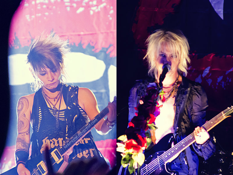 This is a photo of HYDE and K.A.Z in New York City in the Roseland Ballroom during a VAMPS concert.